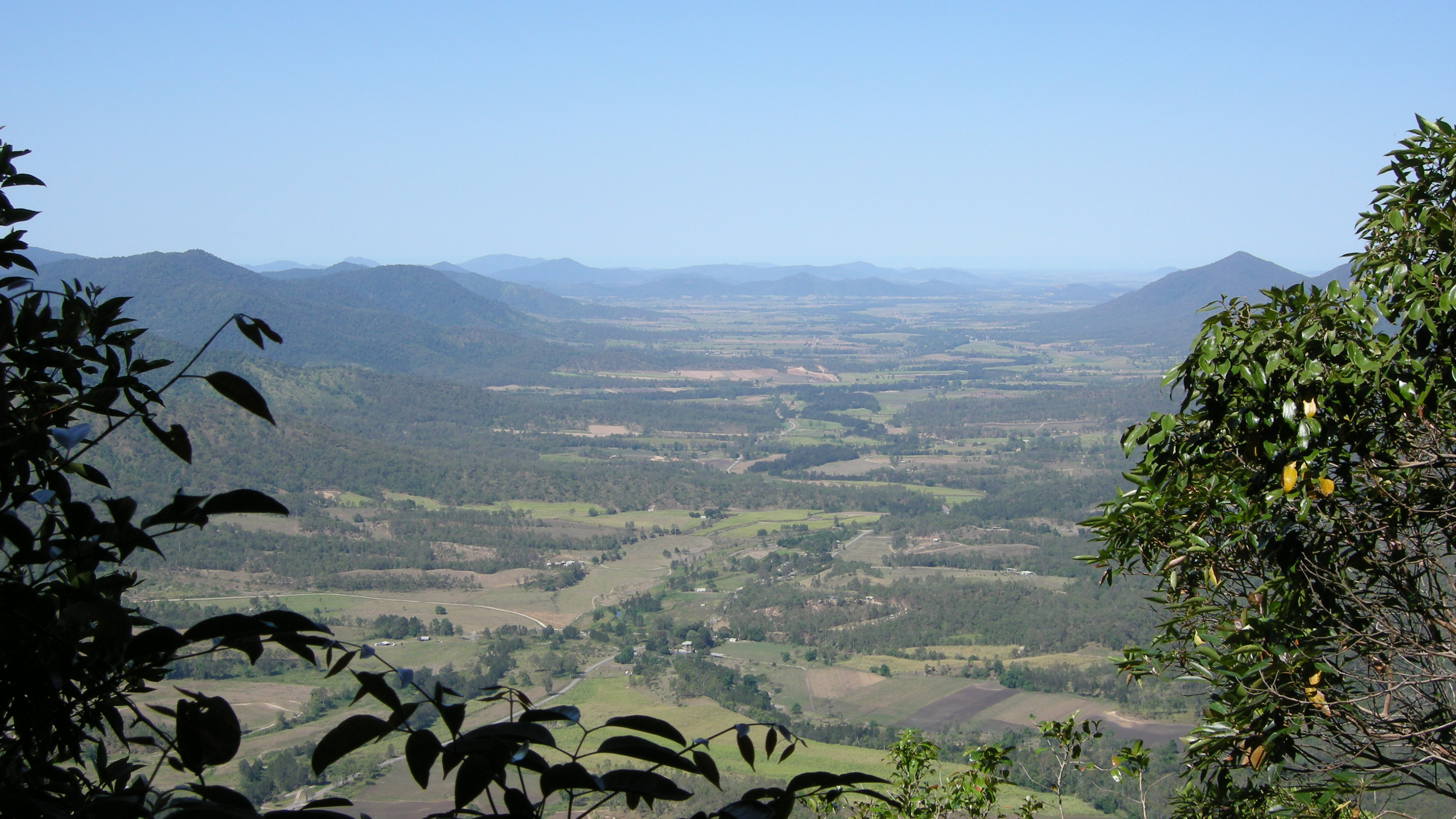 View from the Eungella 'Sky Window' looking east towards Mackay